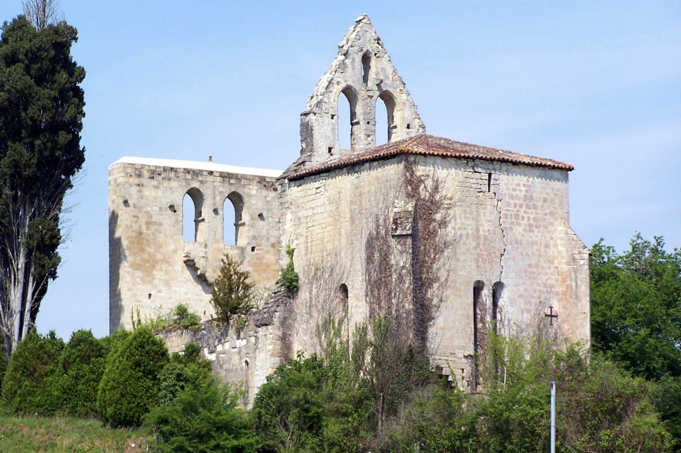 Church Saint-Martin-de-Monclaris of Sigalens (Gironde, France)